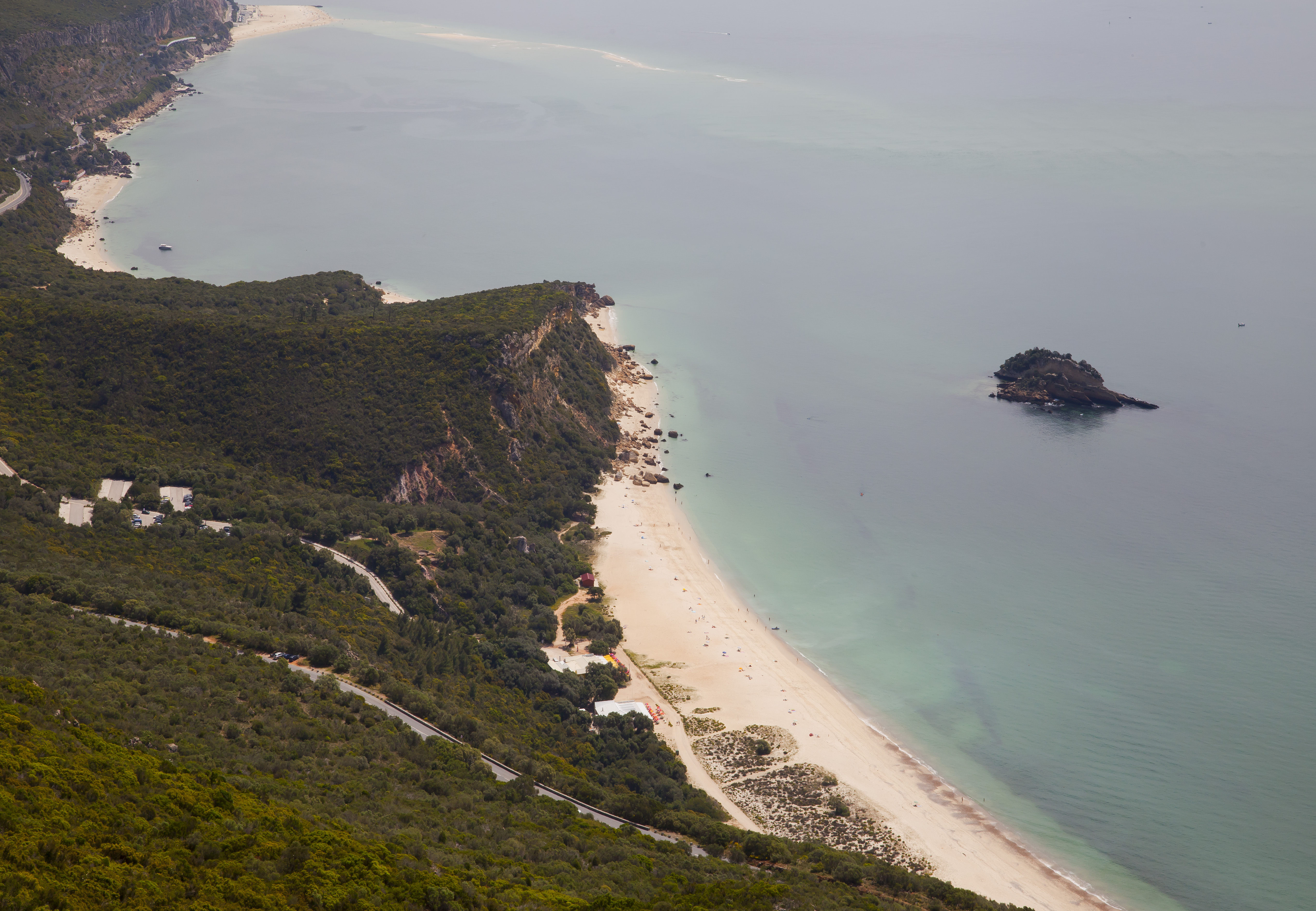 Natural Park of Arrabida, Setubal, Portugal